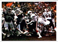 A football card from the 1986 Jeno's Pizza NFL football card stickers set of Buffalo Bills running back Joe Cribbs rushing the ball against the New York Jets in the 1981 AFC Wild Card Playoff Game on December 27, 1981. The card is numbered #30 in the set. The back of the card reads: BUFFALO WINS A "WILD" WILD CARD GAME Buffalo's Joe Cribbs breaks free behind good blocking, as the Bills win their first playoff game in 16 years, beating the New York Jets 31-27 in 1981. The Bills jumped off to a 24-0 lead in the AFC WIld Card Game, but needed a goal-line interception by Bill Simpson in the last seconds to preserve the victory.